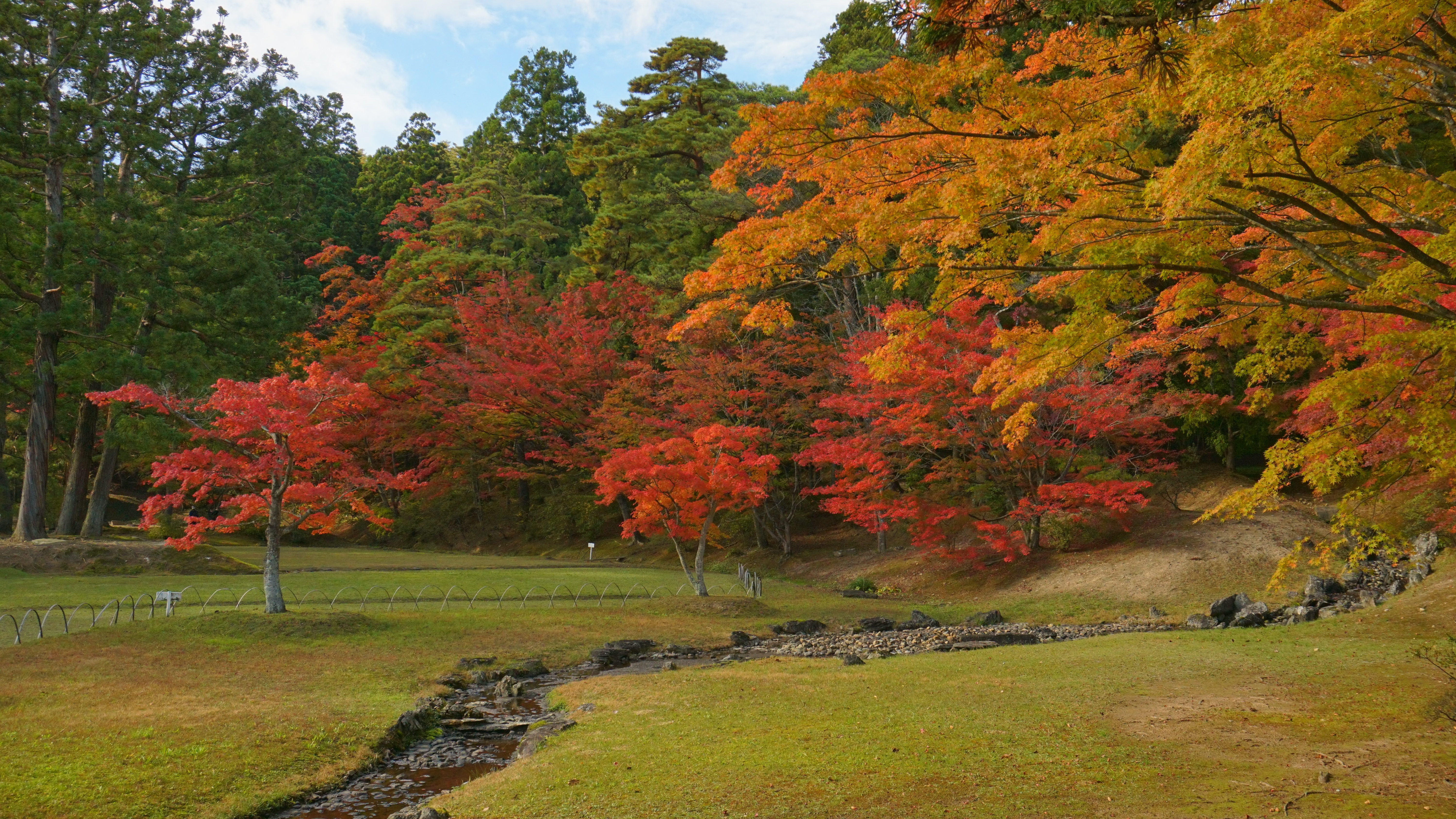 Pure Land Garden of Mōtsū-ji (Hiraizumi, World Heritage Site)